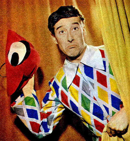 photo from the Italian magazine Radiocorriere (1959)